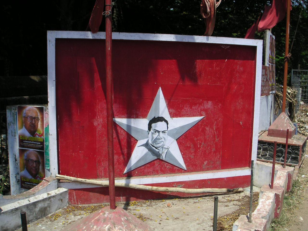 AK Gopalan memorial, Trivandrum. Photo: Soman